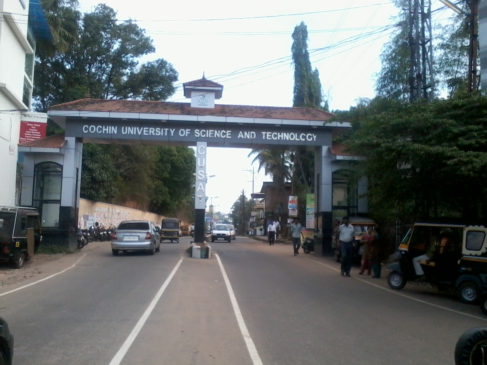 Cochin University of Science and Technology (CUSAT) is a government owned autonomous university in Kochi (Cochin), Kerala, India. Founded in 1971, the university consists of three campuses, two in Kochi and one in Kuttanad, Alappuzha, 66 km inland. The university awards degrees in engineering and allied subjects at the undergraduate, postgraduate and doctoral levels. Nearly 2,000 students engage yearly in undergraduate and postgraduate study in this university.